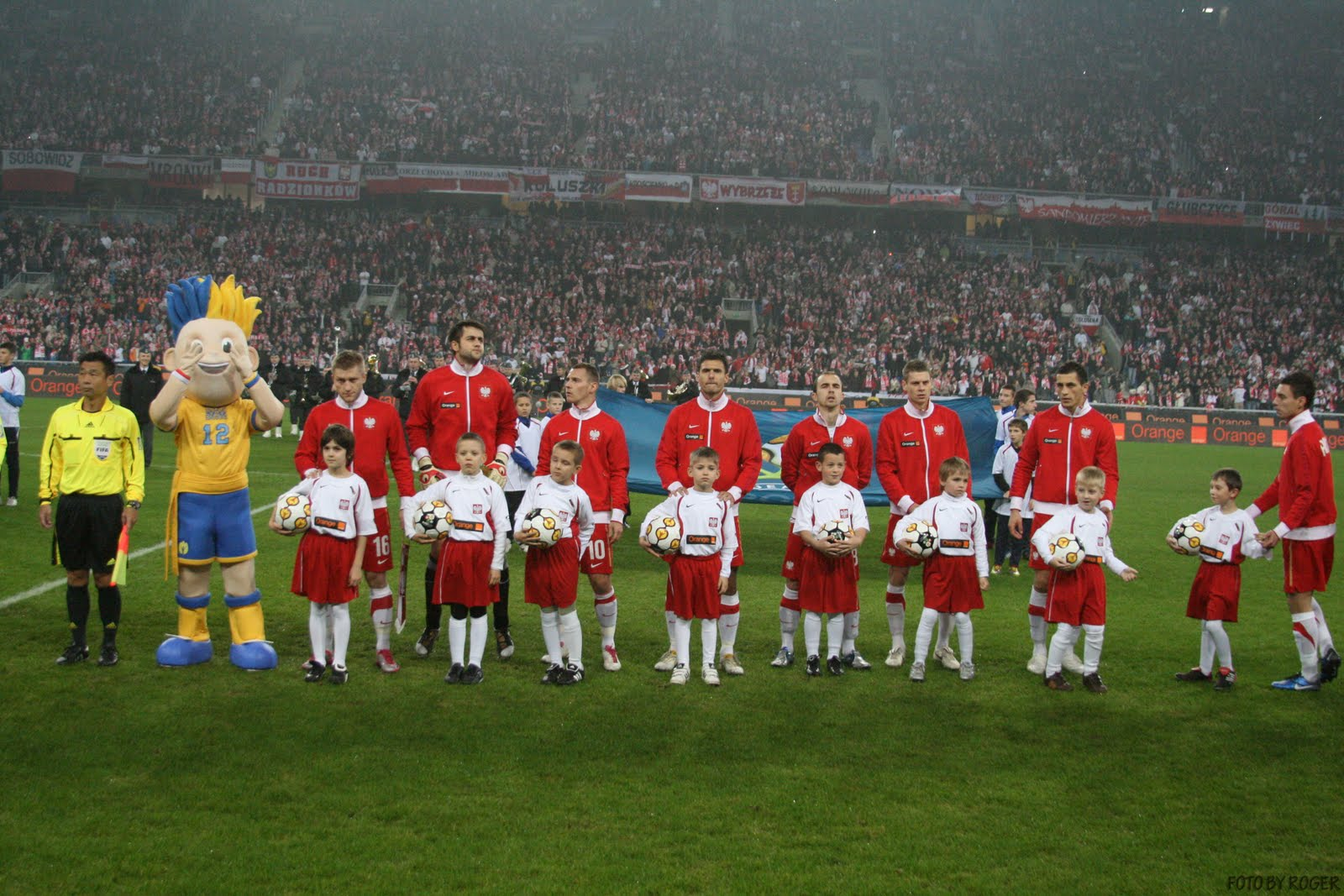 Polish players in Poznań.